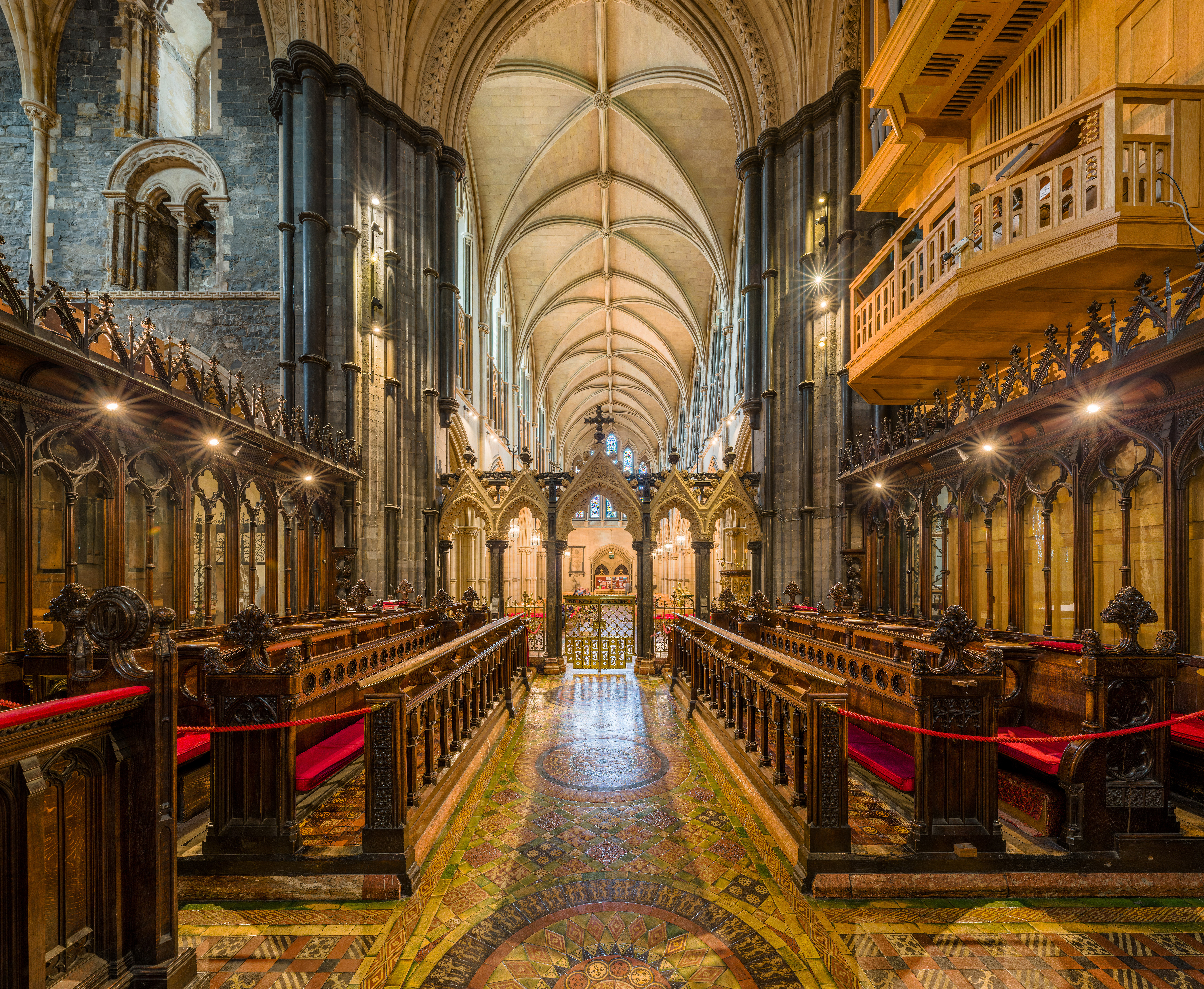 The choir of Christ Church Cathedral in Dublin, Ireland, looking west towards the entrance.